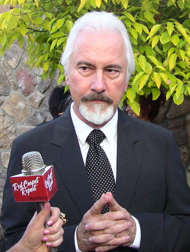 Make up artist Rick Baker (middle) at the 2011 Saturn Awards